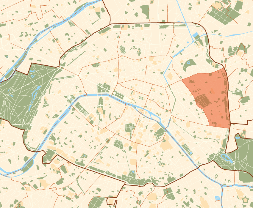 Plan by ThePromenader (own work)